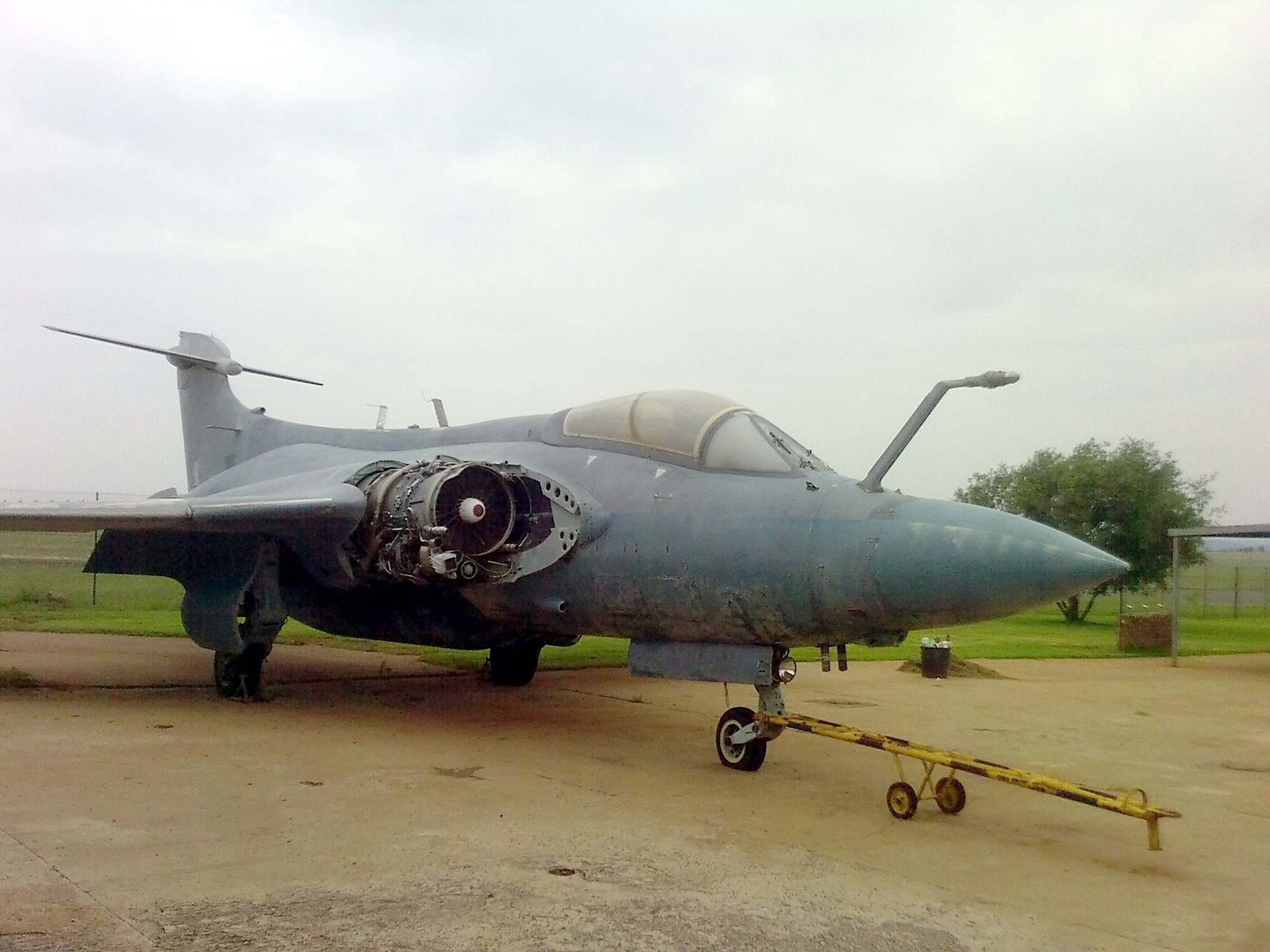 A retired SAAF Blackburn Buccaneer S.50 at the SAAF Museum, Swartkop, Pretoria, South Africa, on 15 December 2008.